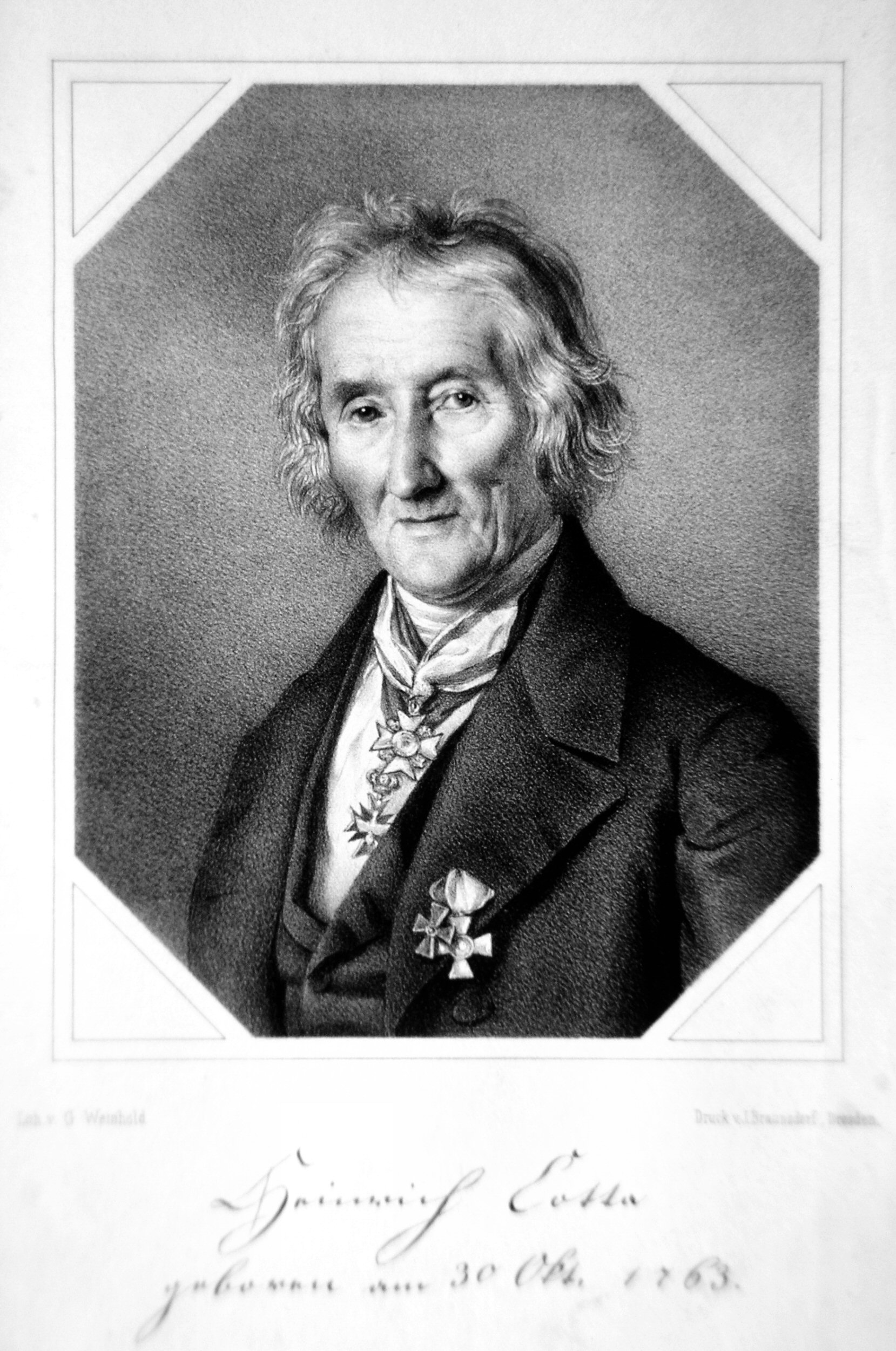 Heinrich Cotta (1763-1844), German silviculturist Lithograph by G. Weinhold, about 1840